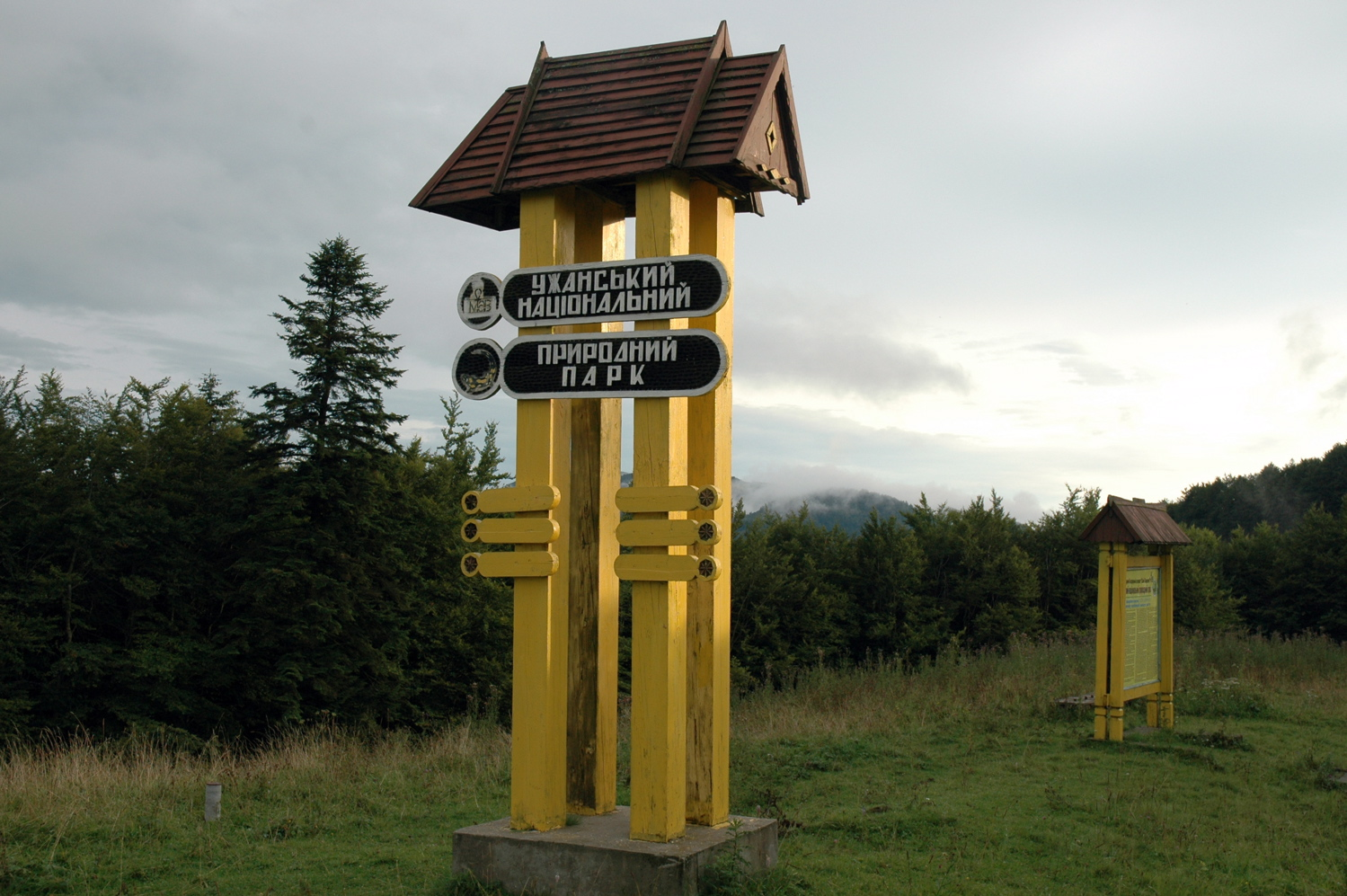 Uzhok pass